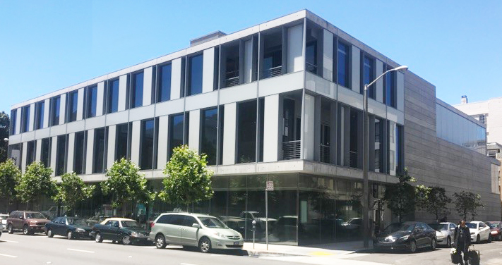 SFJAZZ Center, San Francisco, CA